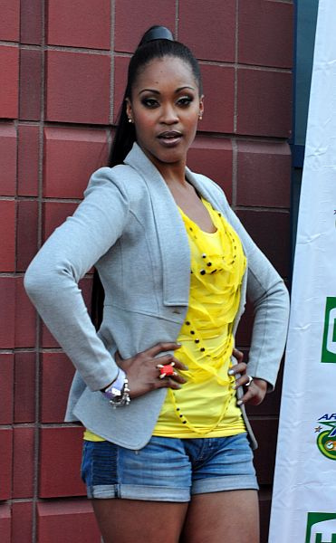 Singer Shontelle attends 15th Annual Arthur Ashe Kids Day on August 28, 2010 at Billie Jean King Stadium in Queens, New York.